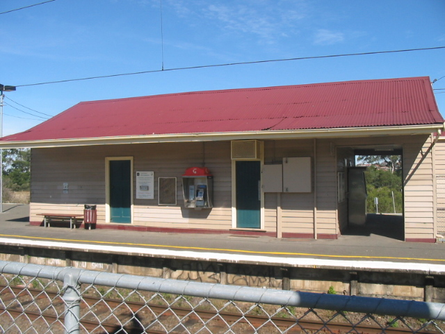 Station building at Beaconsfield. Picture taken by myself.